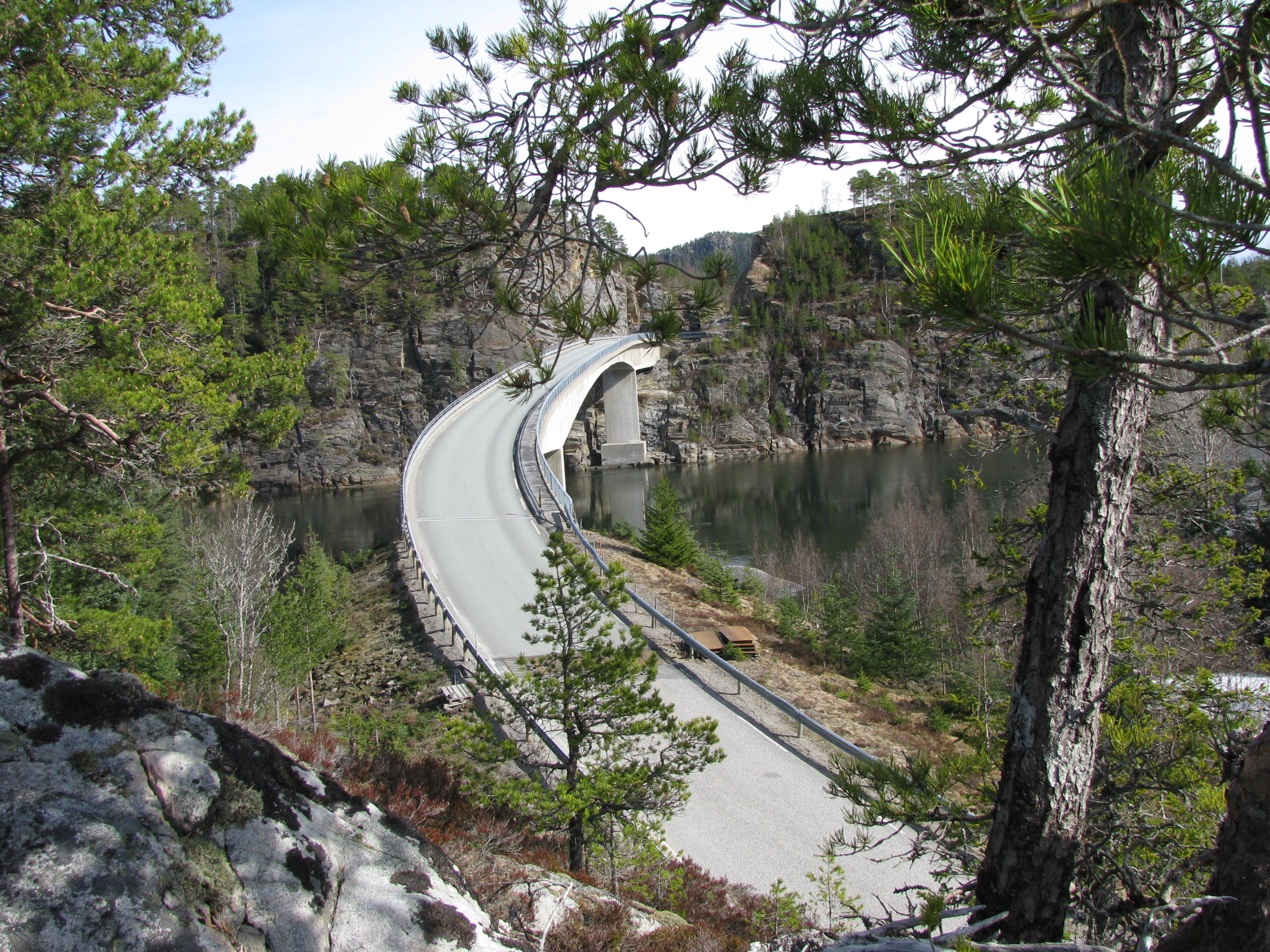 Svartdalsfjorden bridge on the Fv 769 road, Namsos municipality, 20 minutes drive north of Namsos town, Norway. The Fv 769 north from Namsos towards Rørvik/Brønnøysund is characterized by many small fjords and pine covered cliffs. Picture taken 12 April 2009.